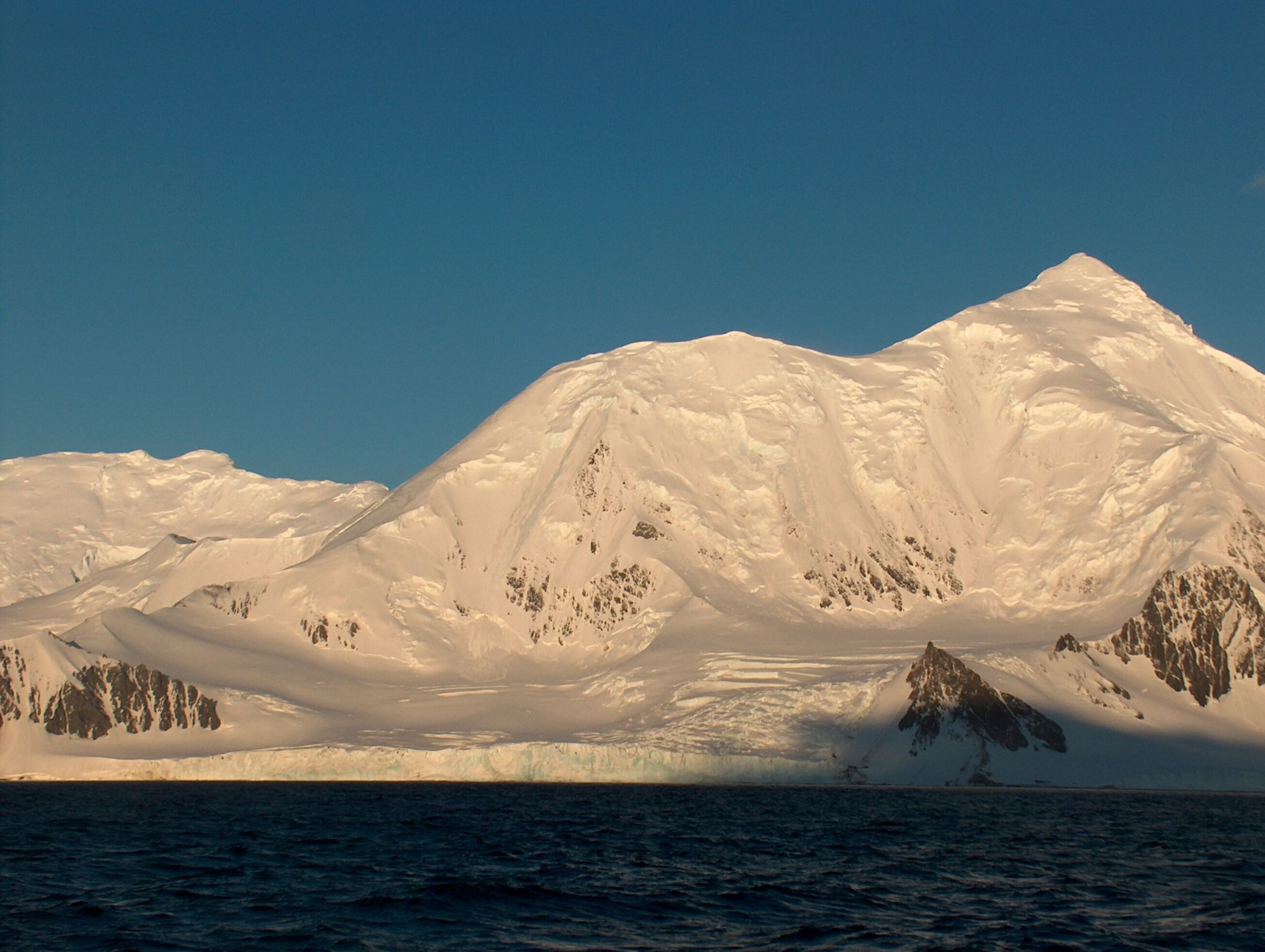 Great Needle Peak from Bransfield Strait in Antarctica, with Serdica Peak in the middle, Srebarna Glacier in the foreground and Mount Friesland in the left background